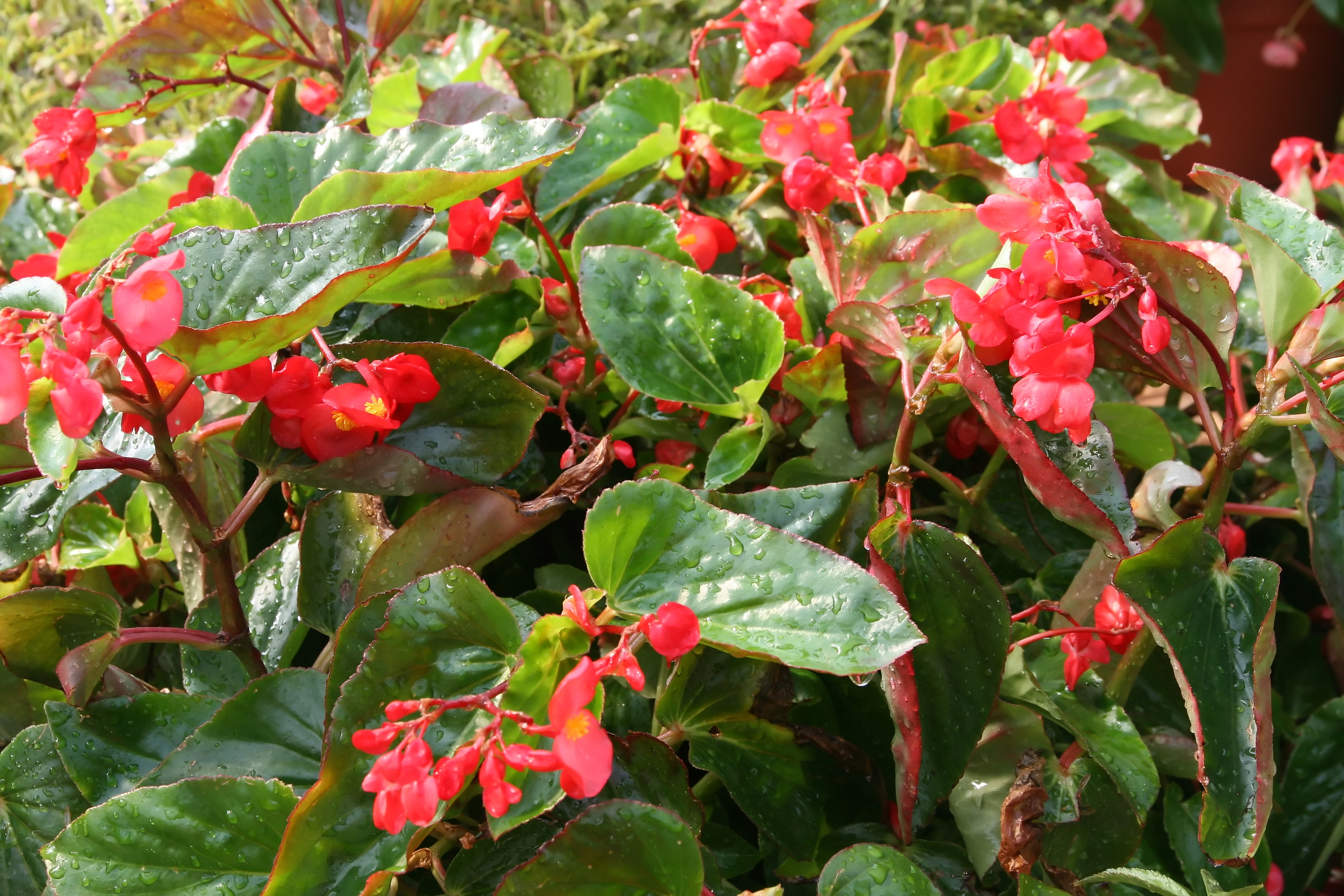 Location taken: American Plant Food Company, 7405 River Road, Bethesda MD.. Unidentified Begonia